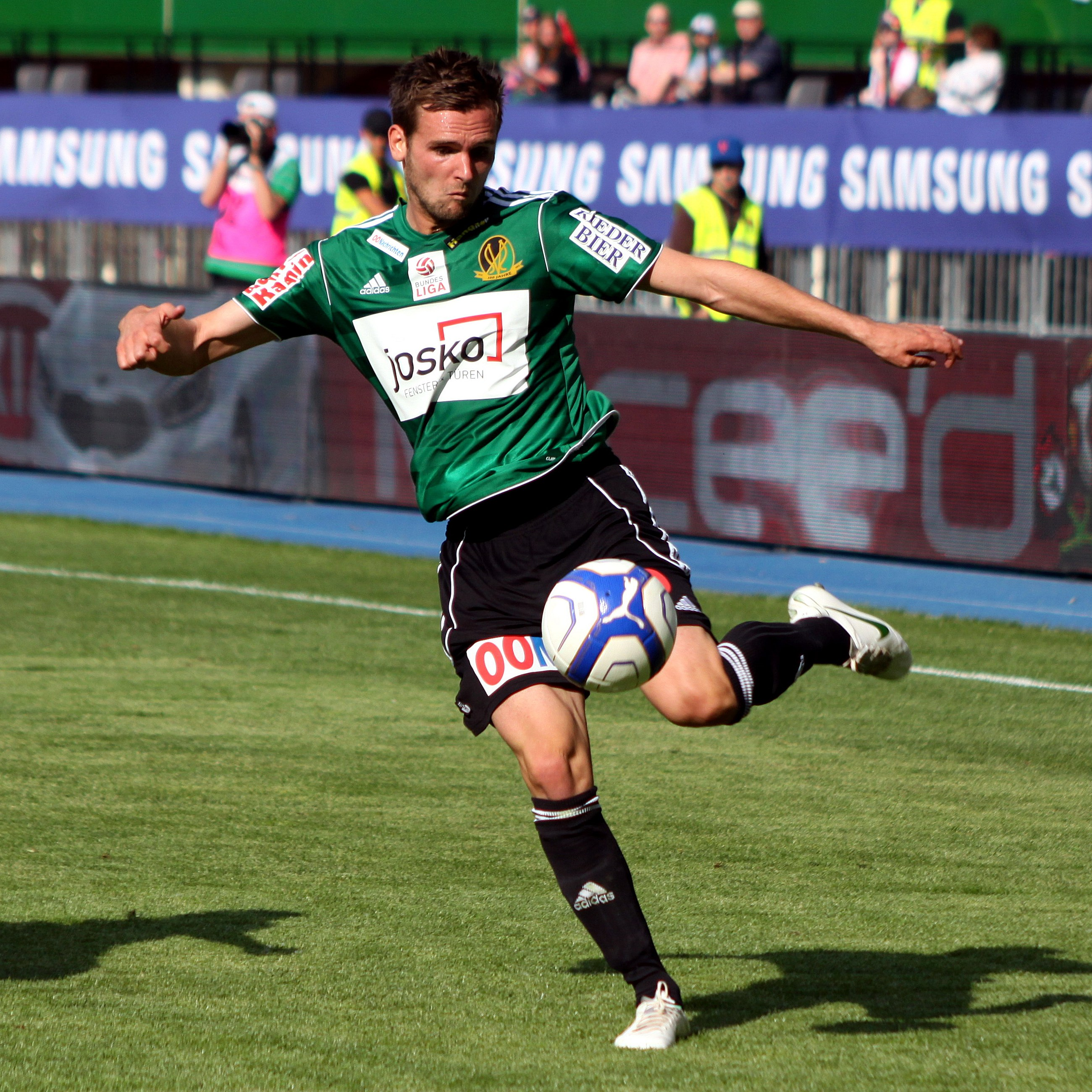 Final of the 2011–12 Austrian Cup FC Red Bull Salzburg vs. SV Ried at 2012-05-20 in the Ernst-Happel-Stadion, Vienna 3:0 (2:0). – The photo shows Emanuel Schreiner (SV Ried). Object location48° 12′ 25.8″ N, 16° 25′ 15.42″ E